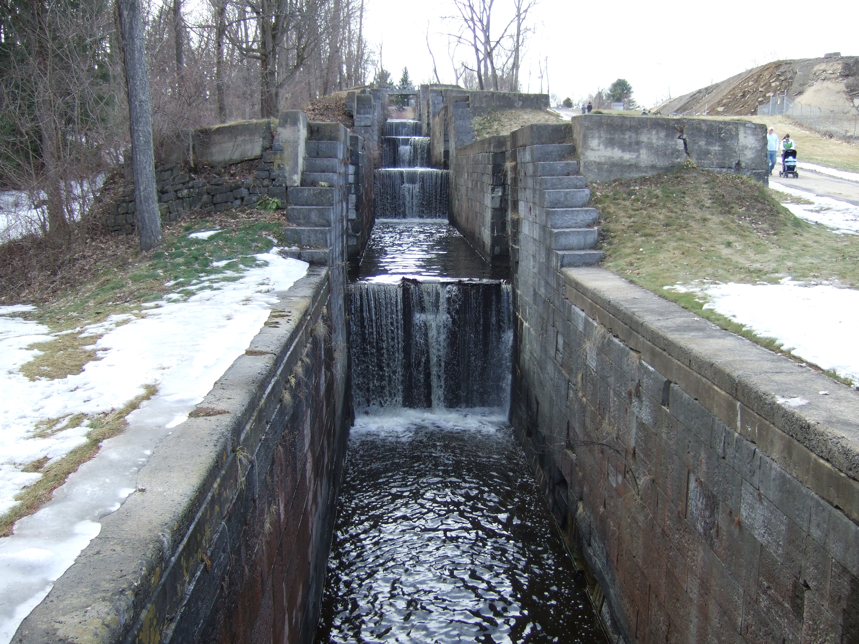 Fort Edward, NY, USA. "The Flight" (today called "The Combine") is a series of five locks on the old Glens Falls Feeder Canal which raised/lowered canal boats a total of 55 vertical feet (16.76 m). Built in 1845, this series of locks replaced the original timber locks of the 1820s and '30s. These locks are 15 feet wide (4.57m) and 100 feet long (30.48m); these dimensions controlled the size of canal boats in the Champlain Canal system so long as these locks were in use. Water from this branch canal (pulled from above the falls in Glens Falls) fed into the highest point of the Champlain Canal, providing a source to replenish water lost both back into the Hudson River to the south and into Lake Champlain to the north.